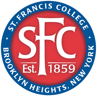 This is the official St. Francis College logo.